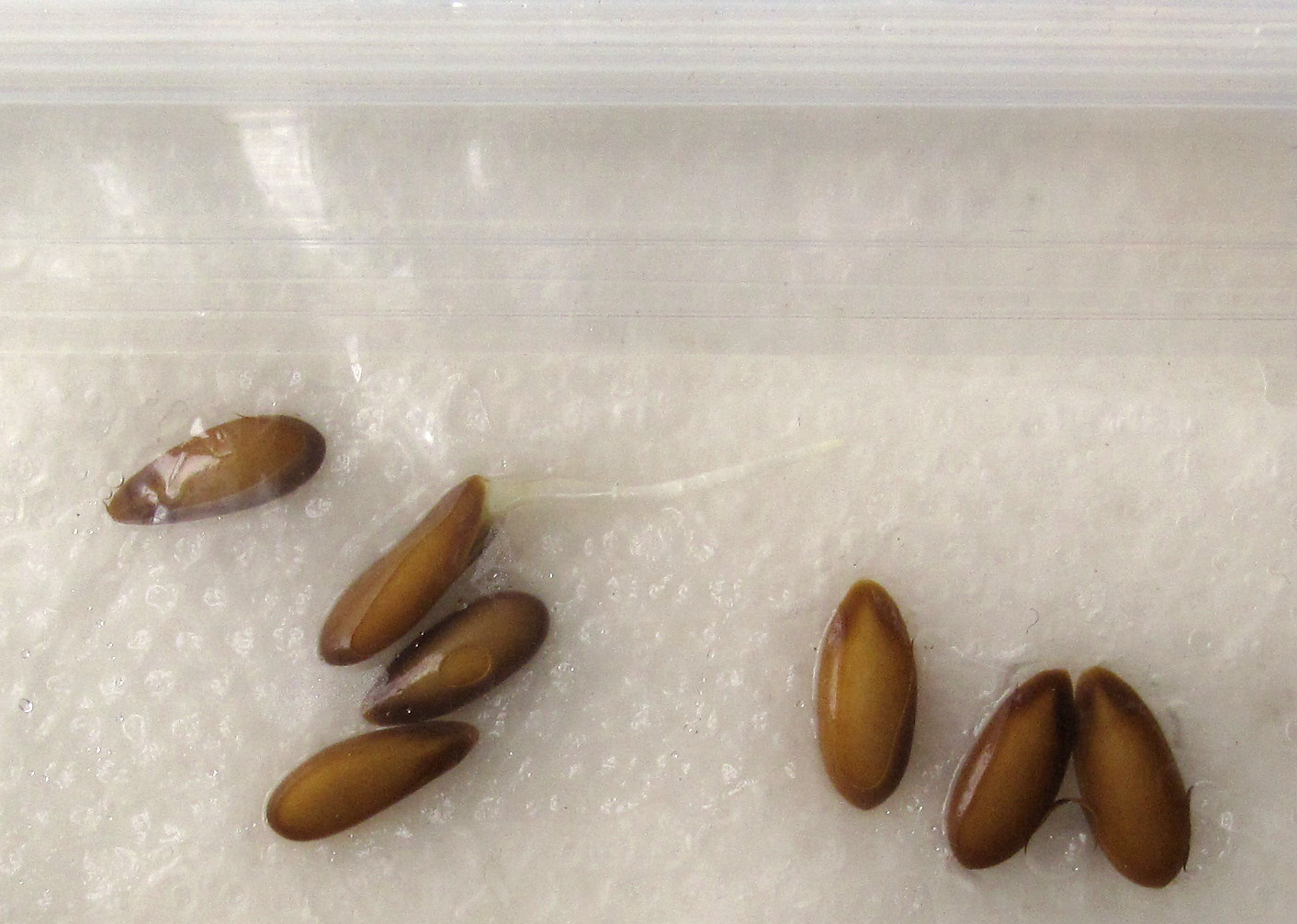 Cantaloupe seeds sprouting on a wet paper towel inside a plastic baggie.